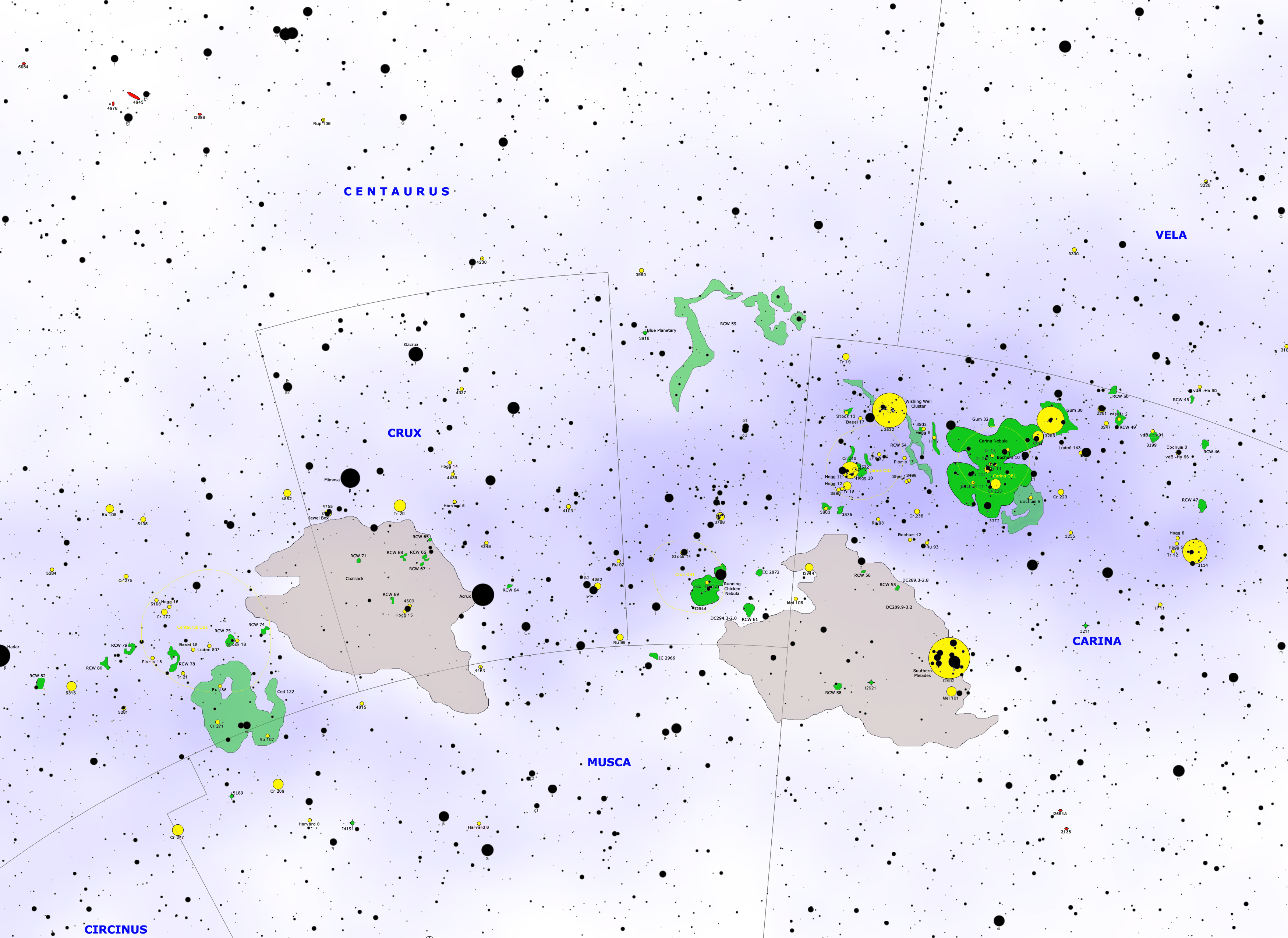 Detailed map of the Carina-Centaurus-Crux region of southern Milky Way; the map shows open clusters (in yellow) and the ionized region (in green). Dark cloud are plotted in grey.